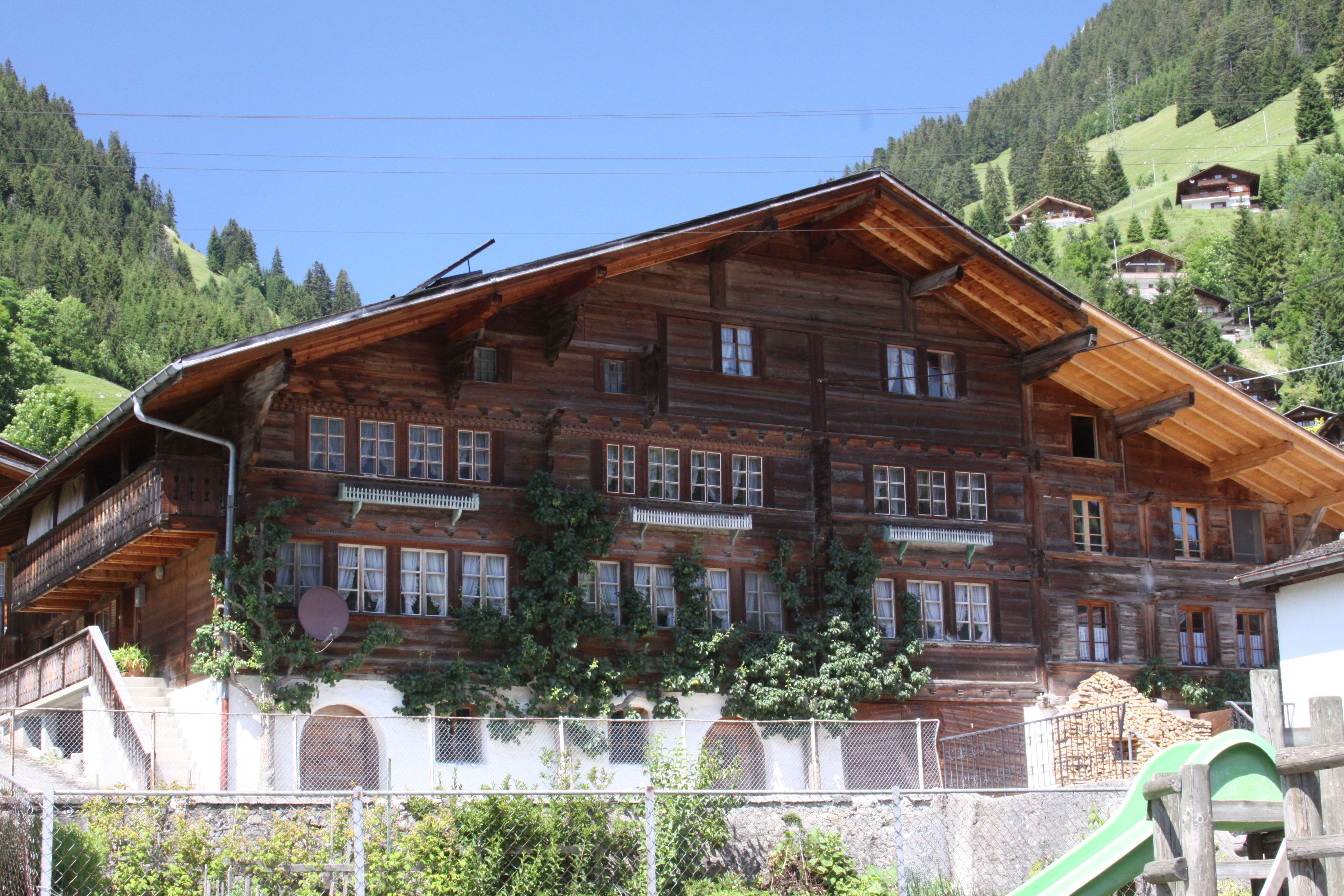 Governor's House, Dorfstrasse 15-17, Jaun